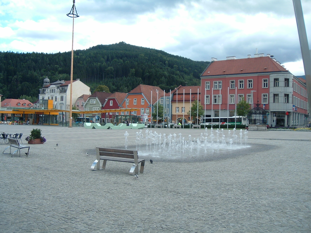 The Hauptplatz (Main Square) in Bruck an der Mur